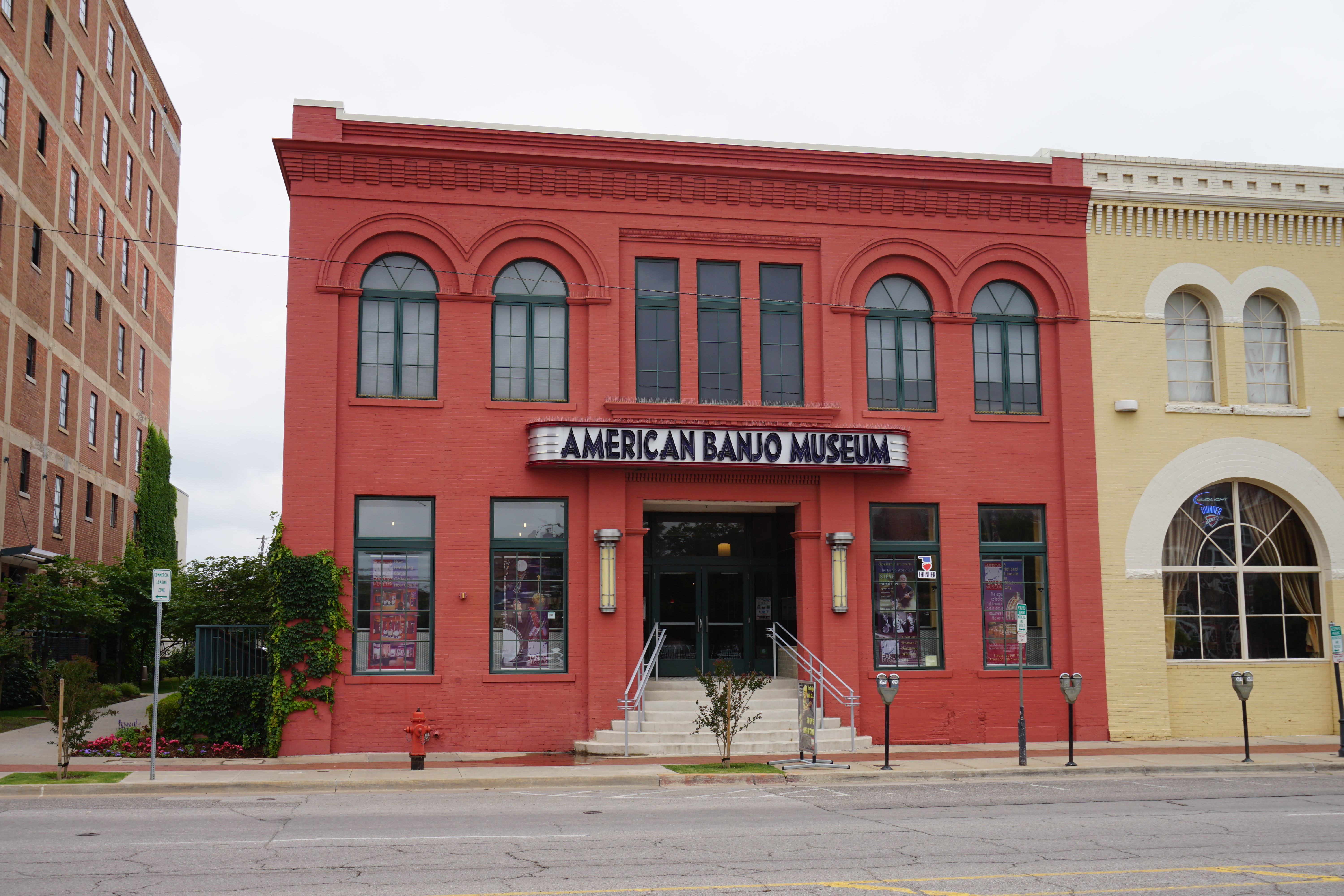 The American Banjo Museum in the Bricktown district of Oklahoma City, Oklahoma (United States).